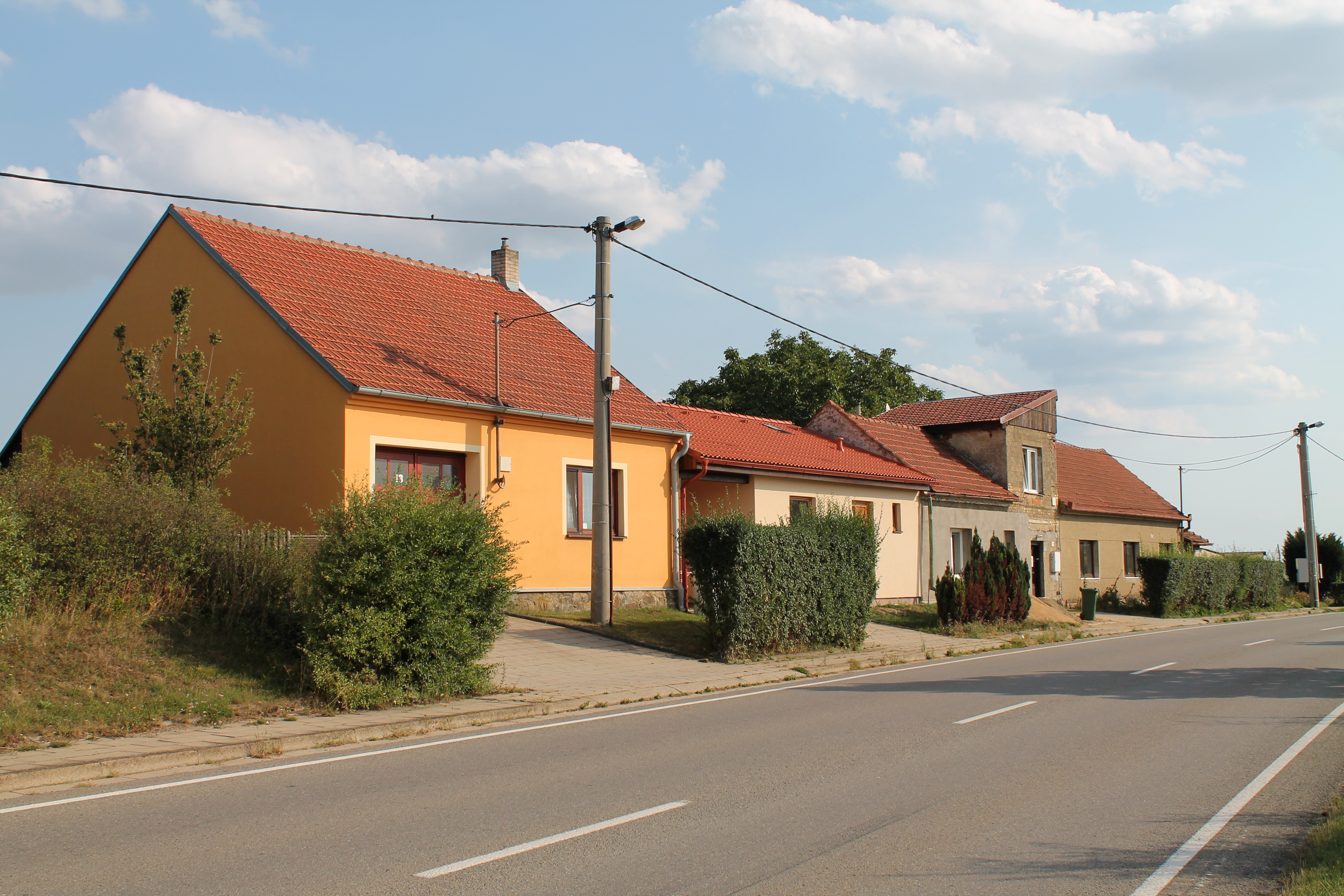 Zouvalka, Prusy-Boškůvky, Vyškov District, Czech Republic